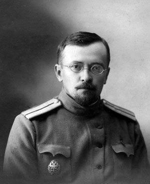 Ruf Yakovlevich Smirnov, Russian doctor, a member of the second Russian State Duma, in WW1